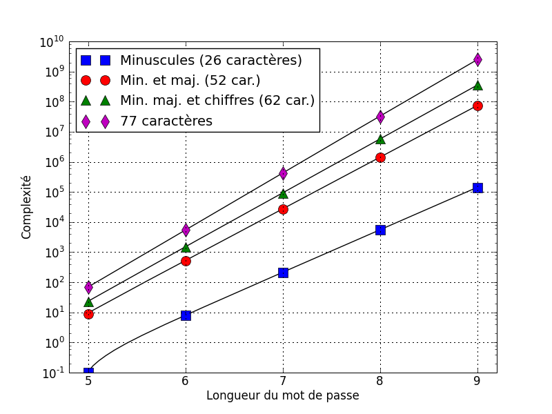 A plot that illustrates the complexity of a password, depending on its length and the set of characters used. The complexity is measured by the time needed to crack the password with a bruteforce attack. The time (expressed in secondes) is estimated considering a machine comparing 38177487 hashes (arbitrary value obtained on a typical workstation in 2008 by comparing LM hashes). Beware of the logarithmic scale.